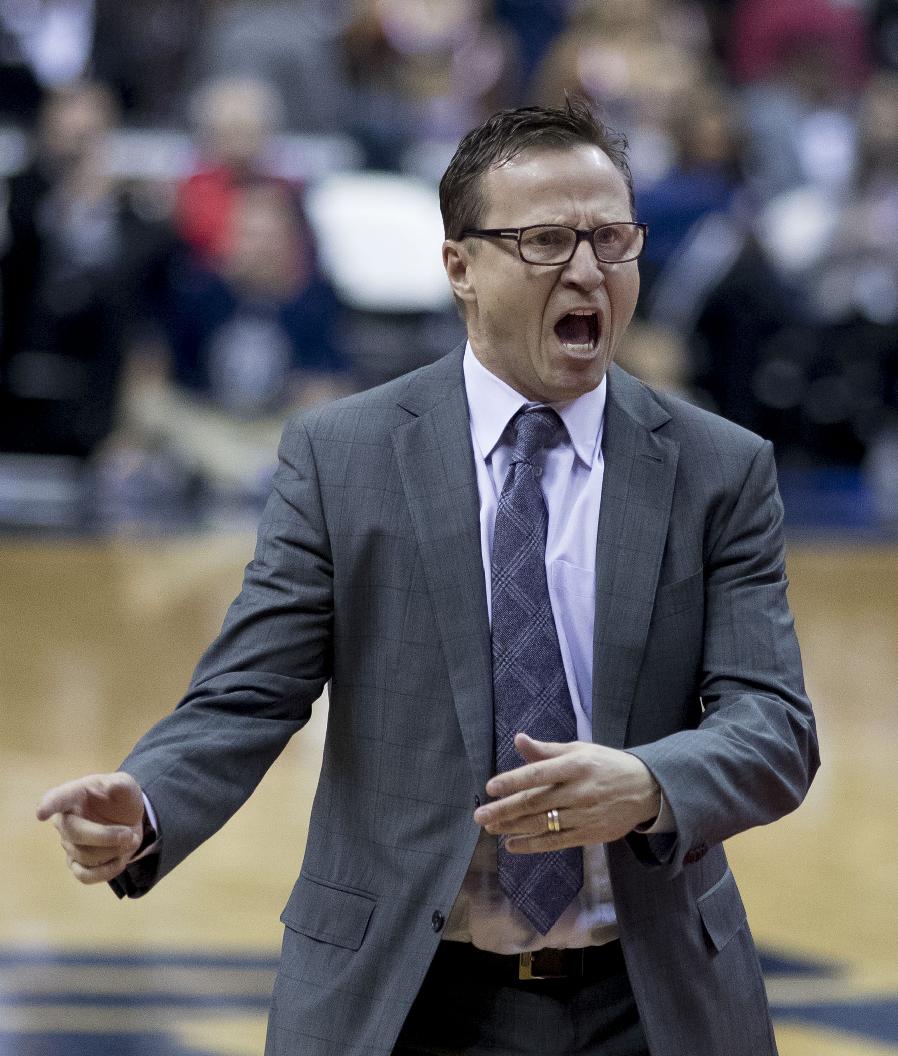 Scott Brooks during a Washington Wizards game versus the Charlotte Hornets in 2016.